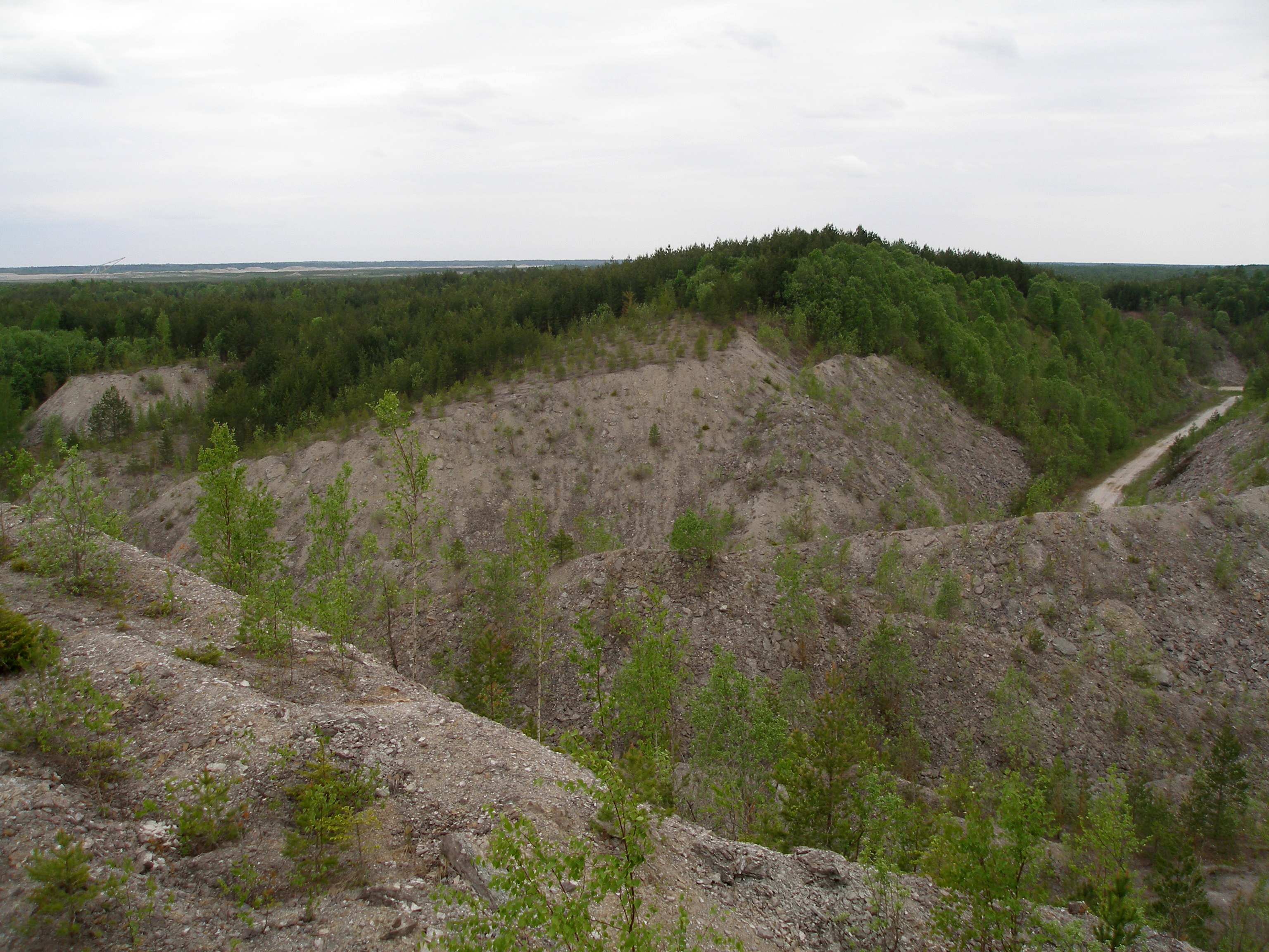 Unrehabilitated land in older part of Aidu oil shale mine in Ida-Viru county, Estonia.